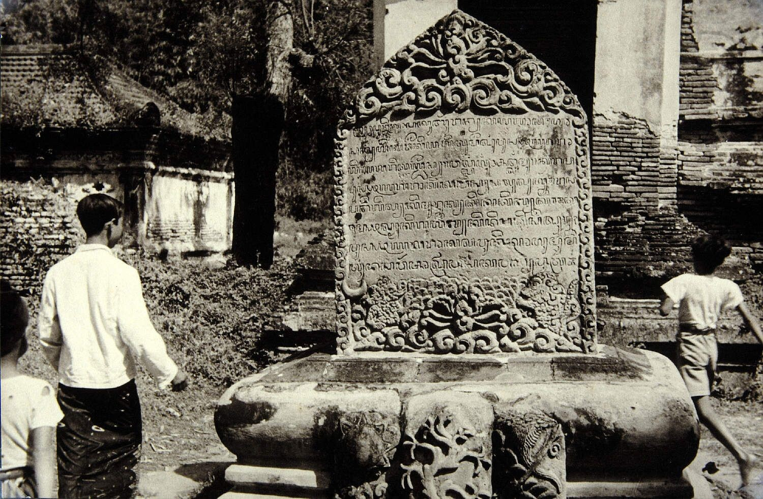 Stone with text at Grissee